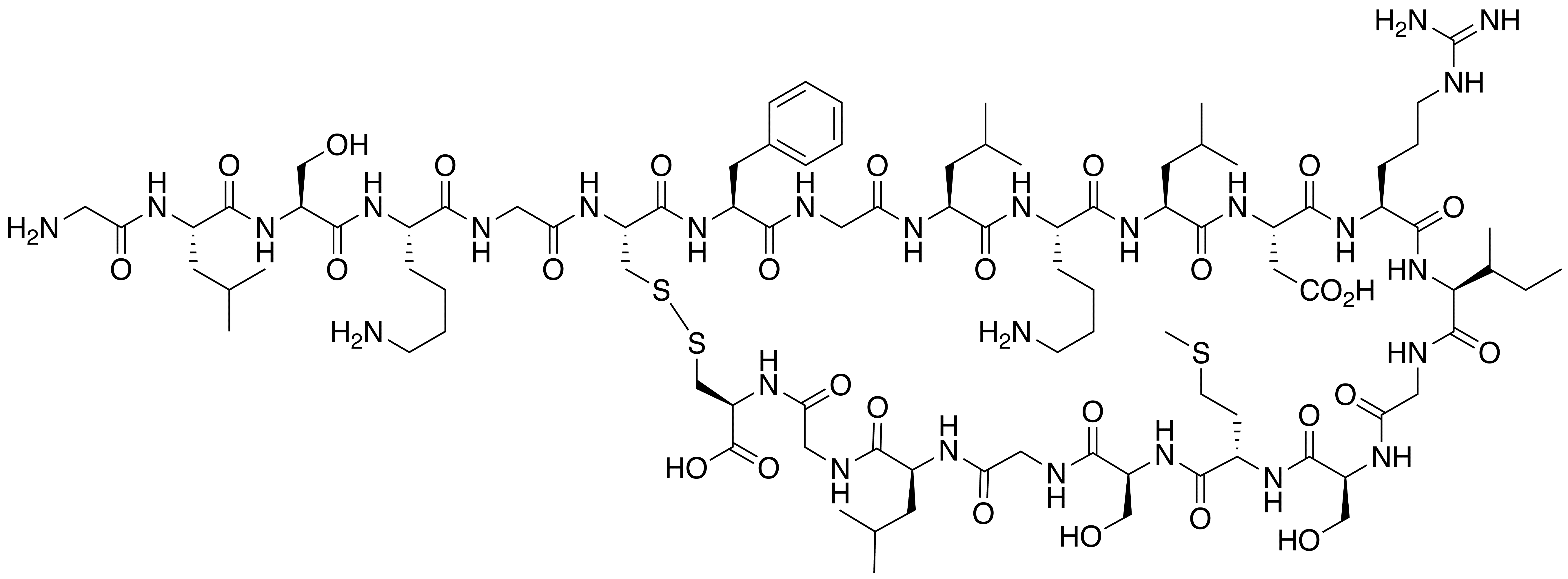 Skeletal structure of human C-type natriuretic peptide (sequence taken from PMID 8959763), a cleavage product of Natriuretic peptide precursor C